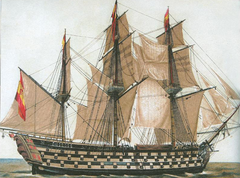 Picture from XIX. Century. Capital ship "Santa Anna".